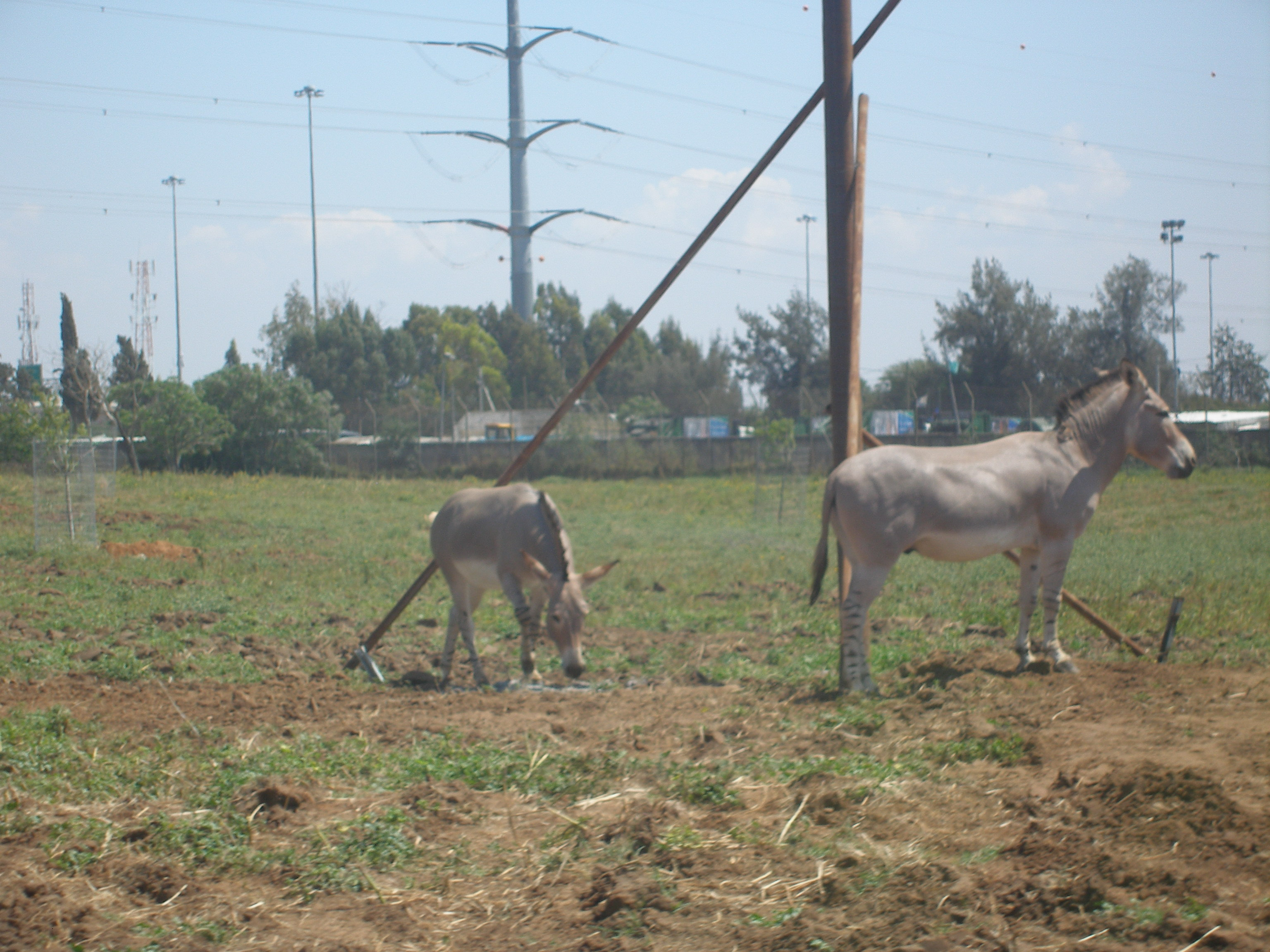 African Wild Ass. Taken in the Zoological Center of Tel Aviv-Ramat Gan, Israel